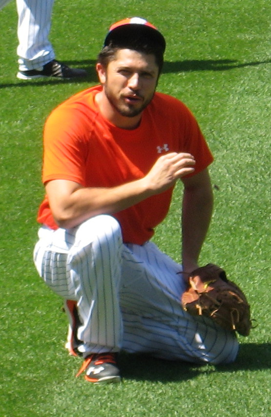 Travis d'Arnaud of the New York Mets on June 22, 2016.